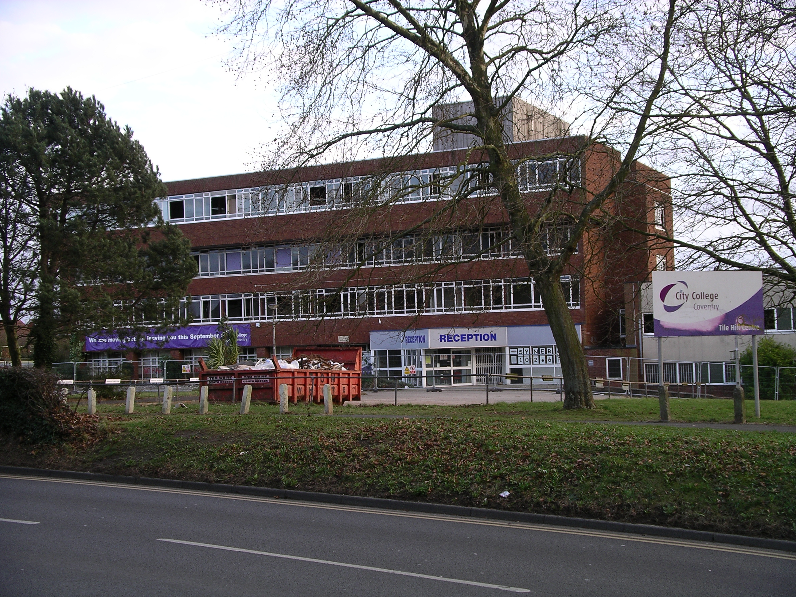 City College, the Tile Hill Center in Coventry, England.